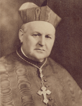 Photograph of Cardinal Pietro Boetto